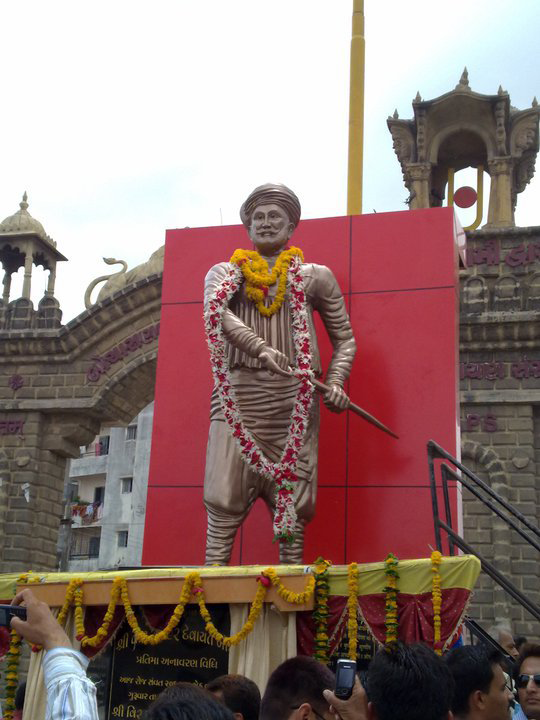 Devat Bodar Idol at Junagadh. ગુજરાતી: જૂનાગરઢમાં આવેલી દેવાયત બોદરની પ્રતિમા